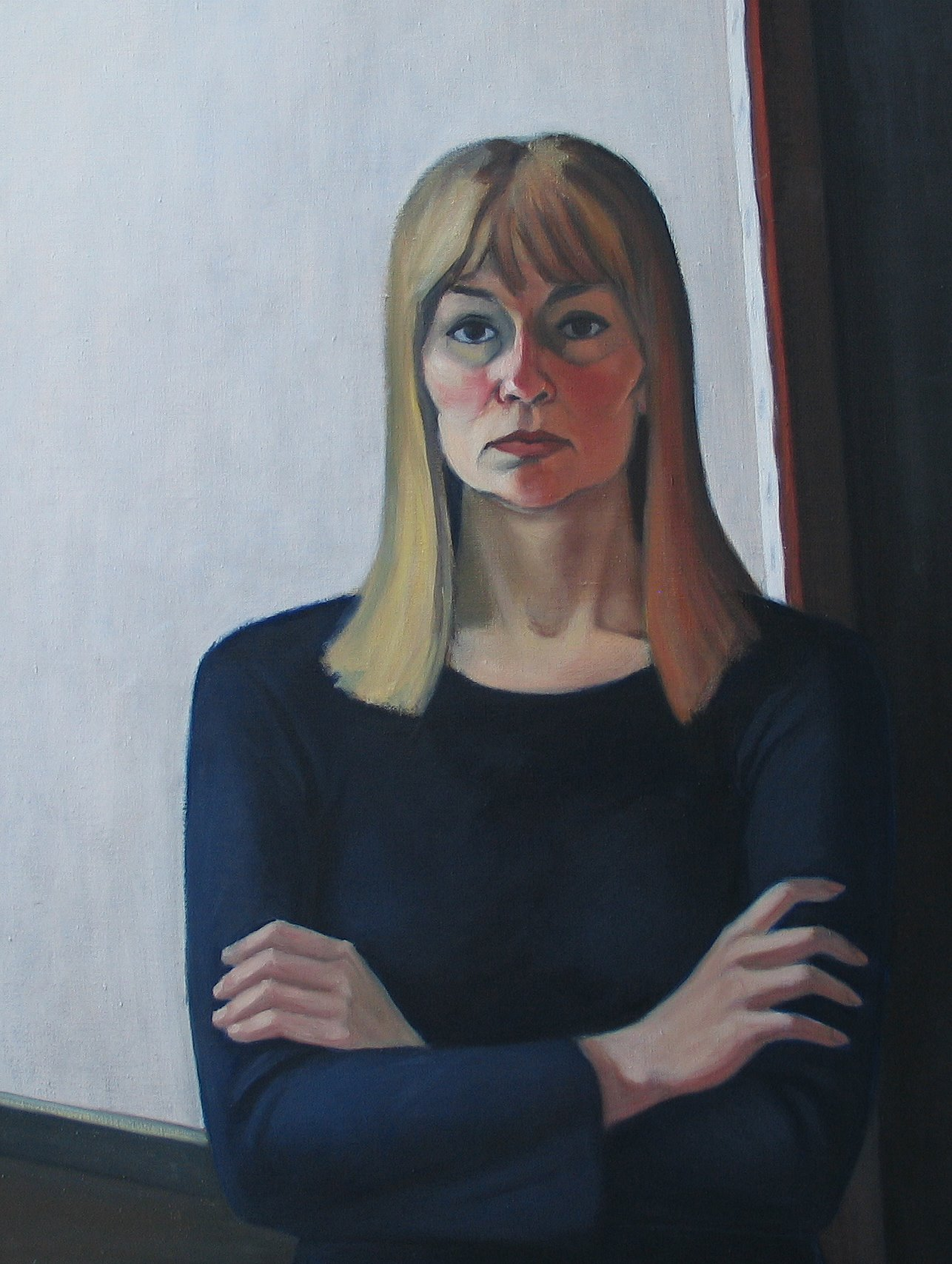 Myself à la Beckmann, 1978, Oil/canvas, 100 x 120 cm